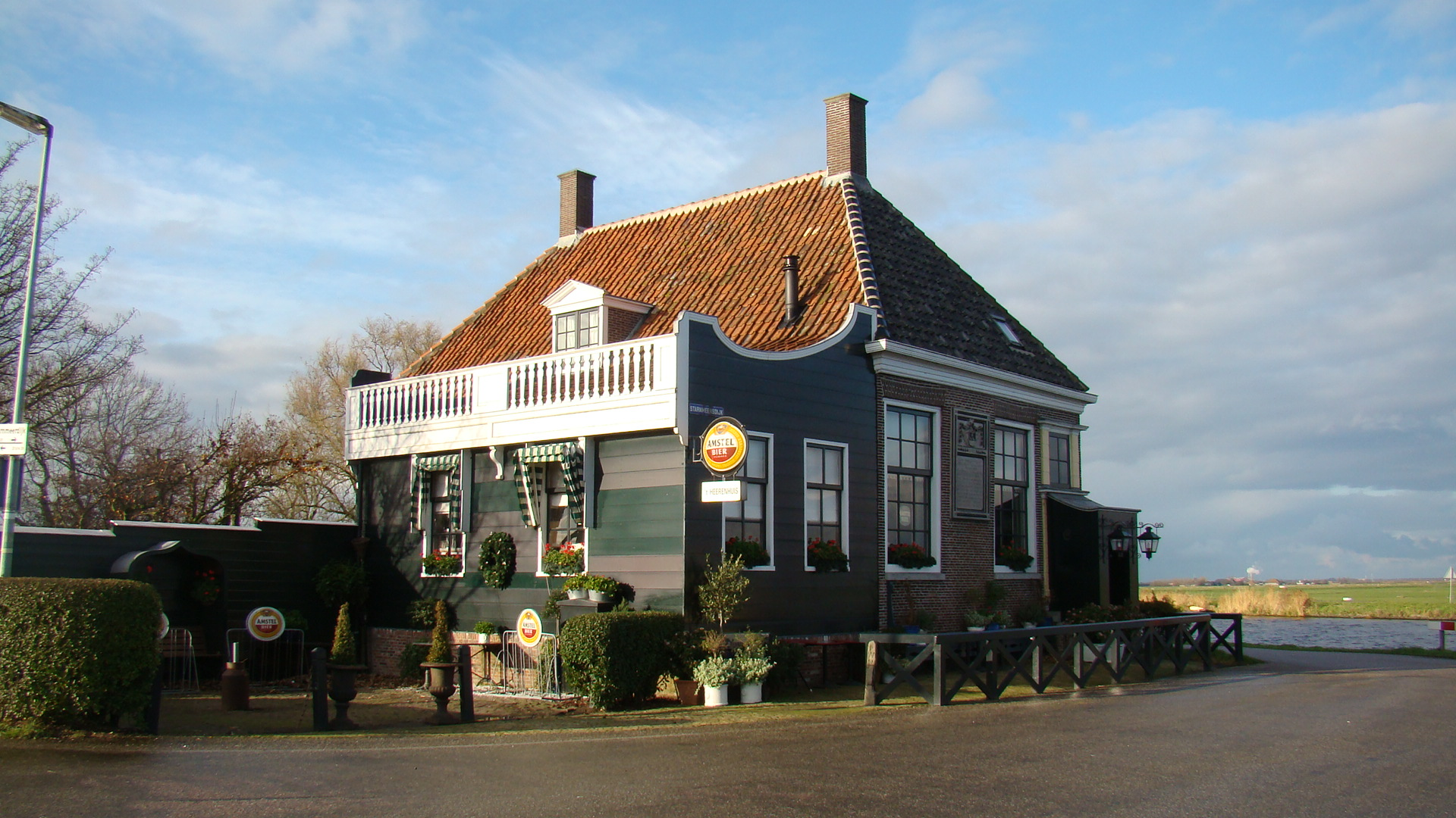 't Heerenhuis (house of the lord), Spijkerboor